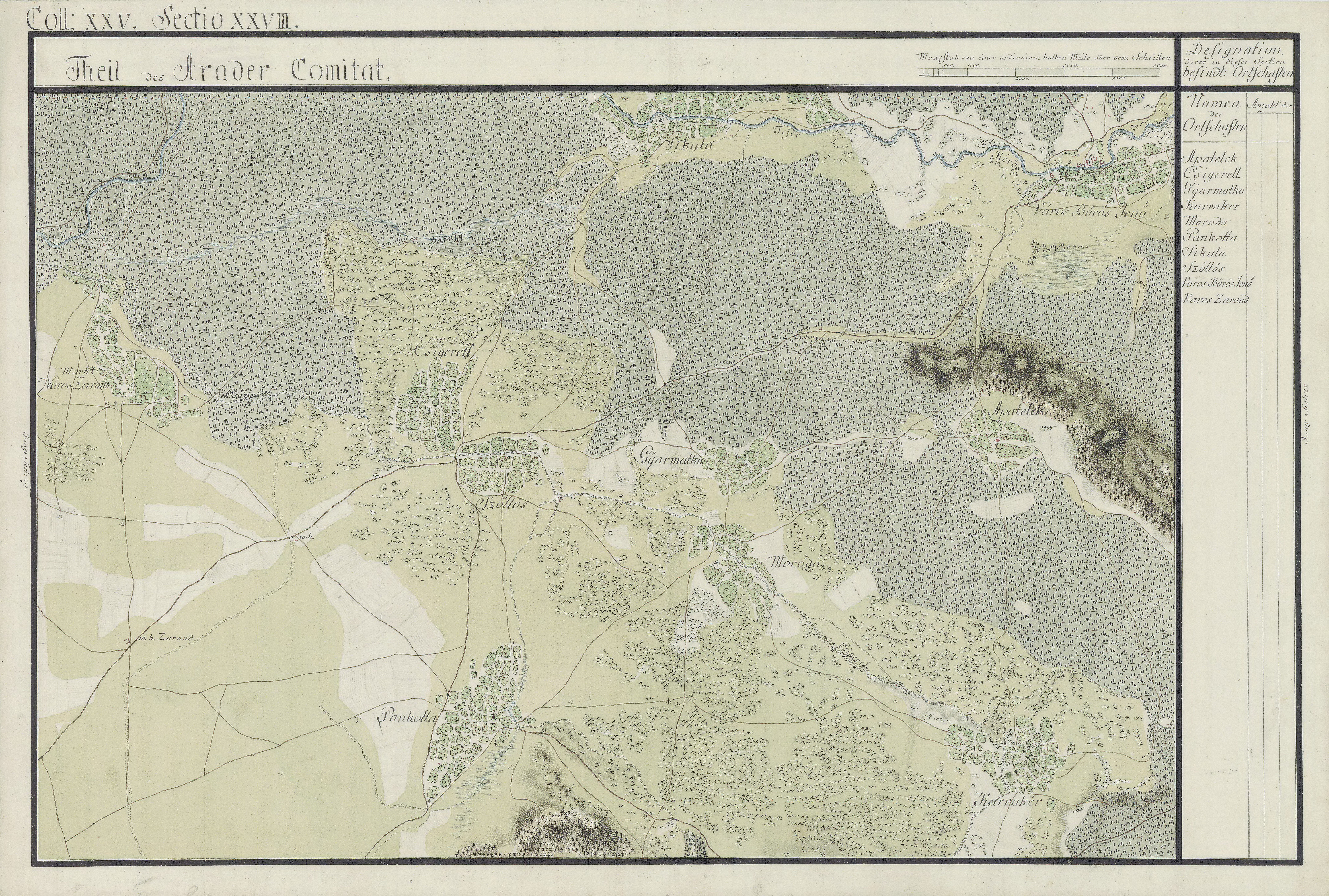 Arad County, 1782-85. Josephinische Landesaufnahme pg.25-28